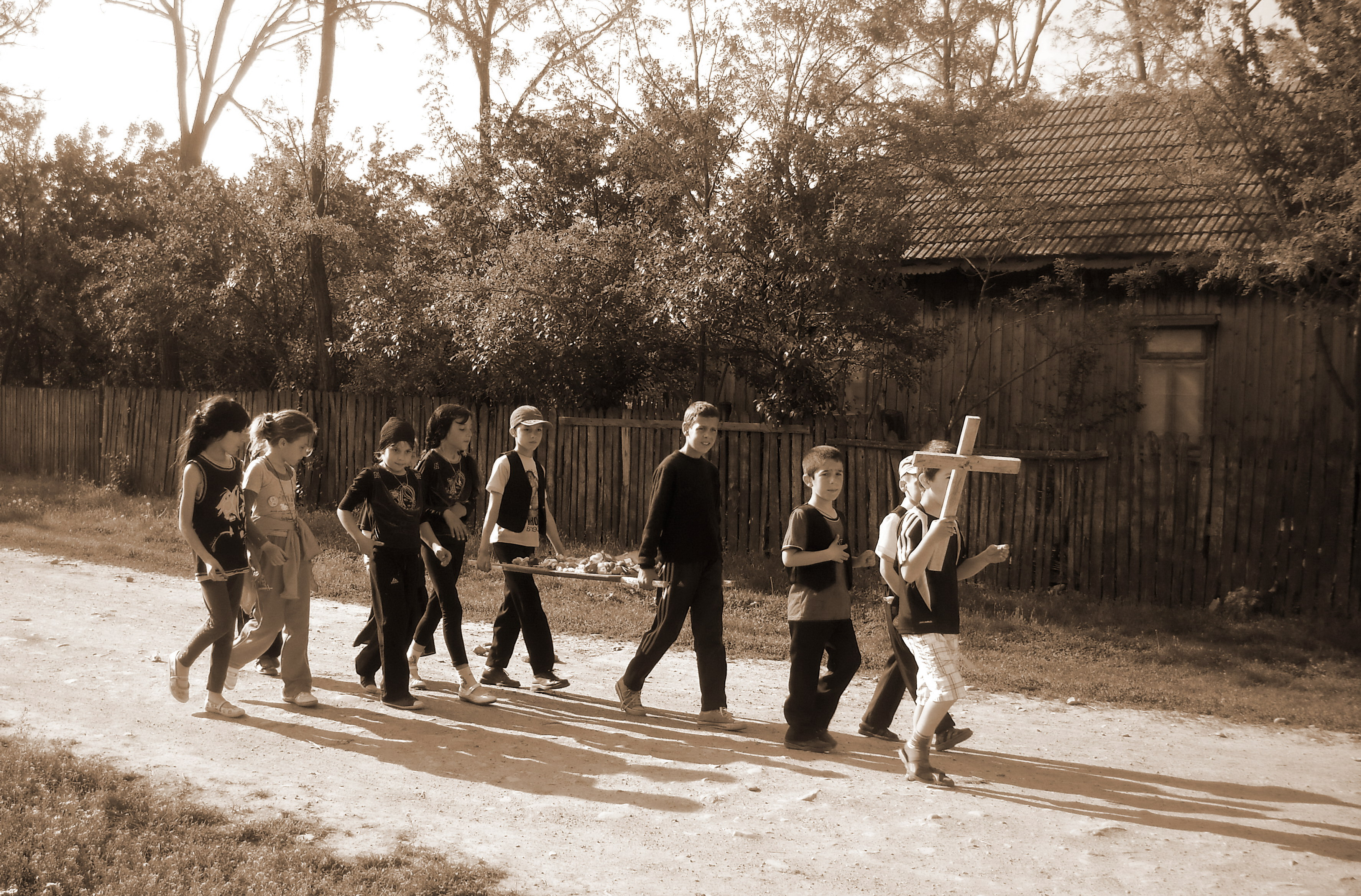 A children team caroling with Caloianul, from Bordei Verde commune, Brăila County, România, 2011